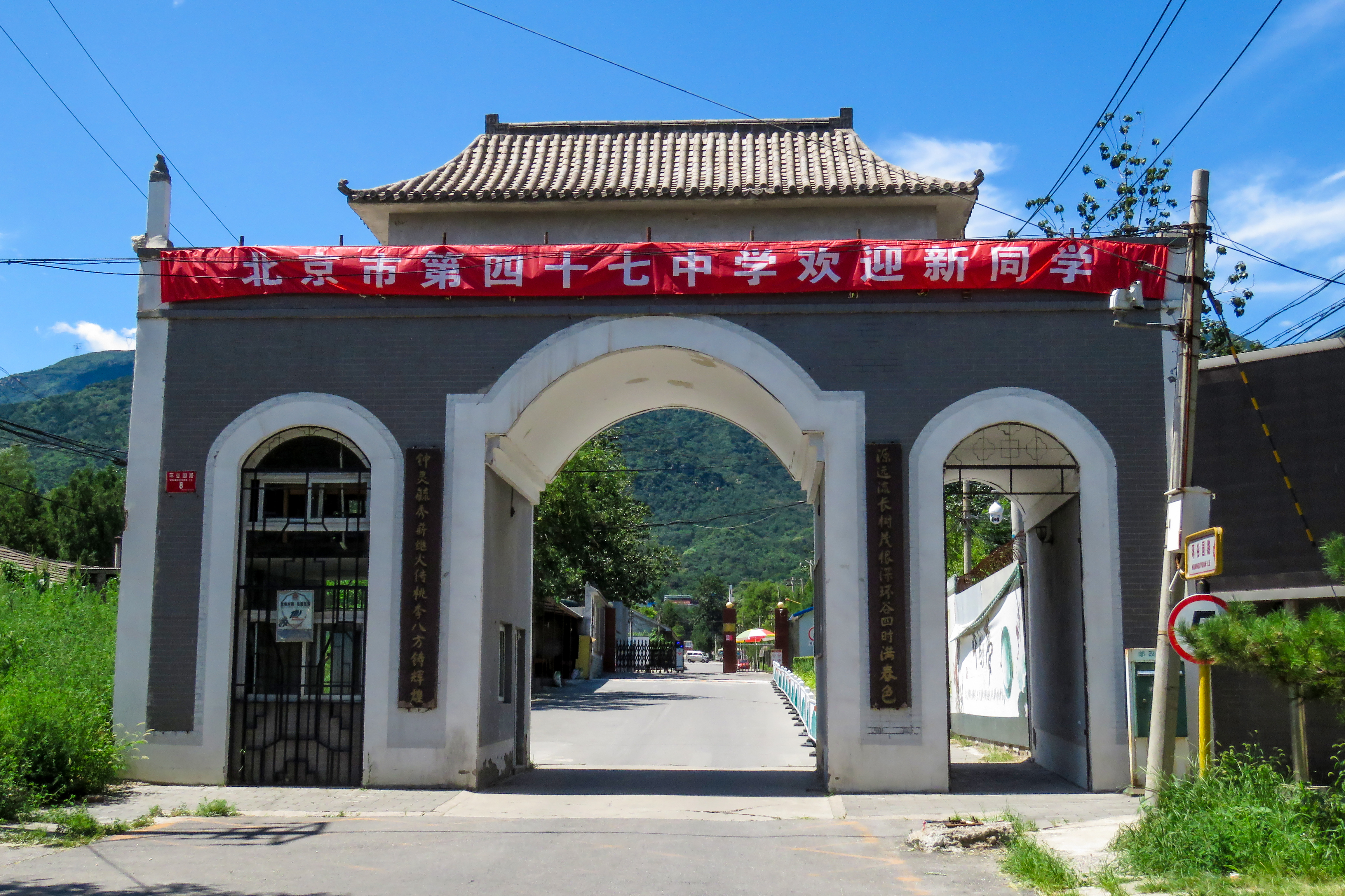 Formerly an affiliate of Sino-French University.